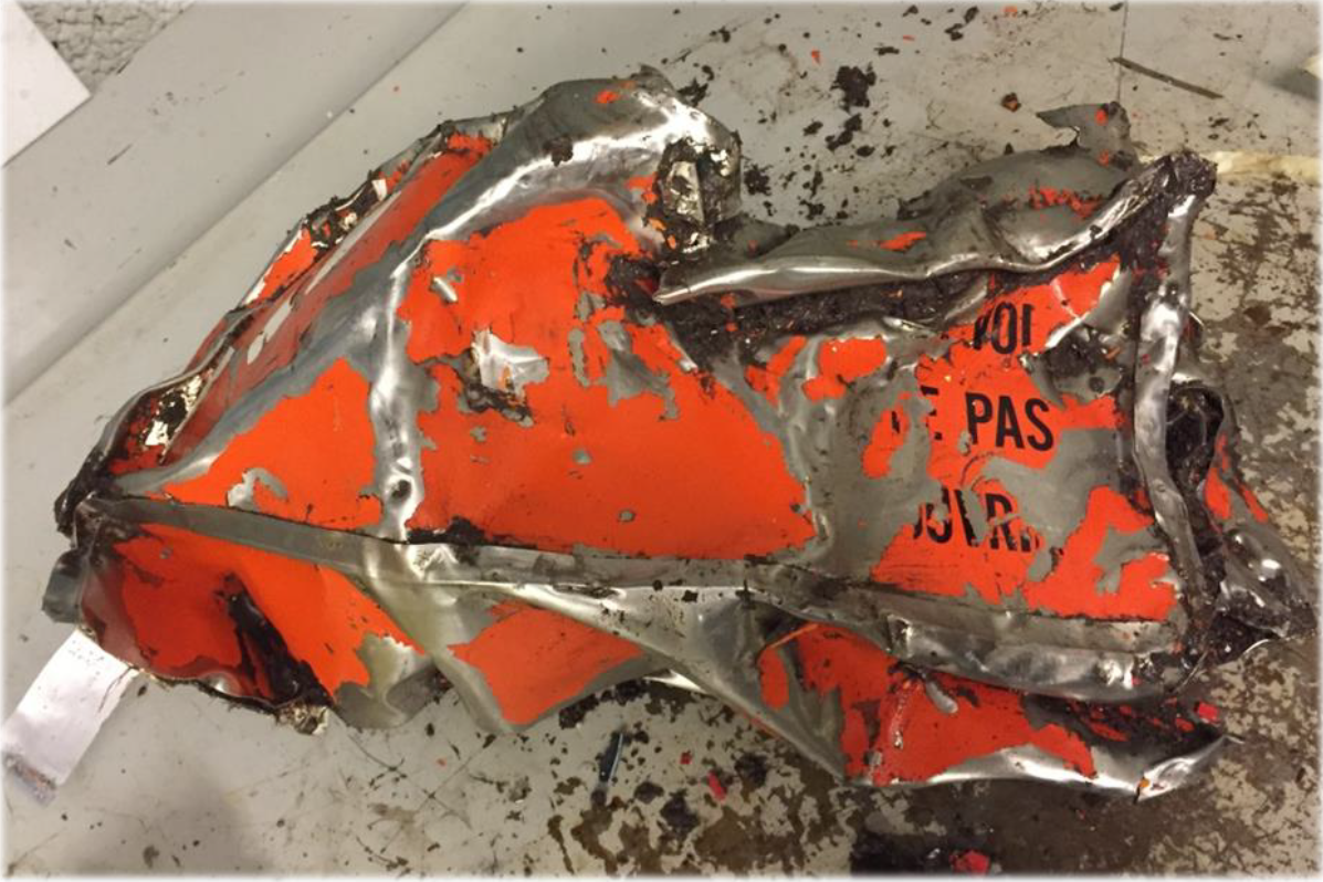 The DFDR (Digital Flight Data Recorder) from West Air Sweden flight 294. All the data from the recorder was recovered.